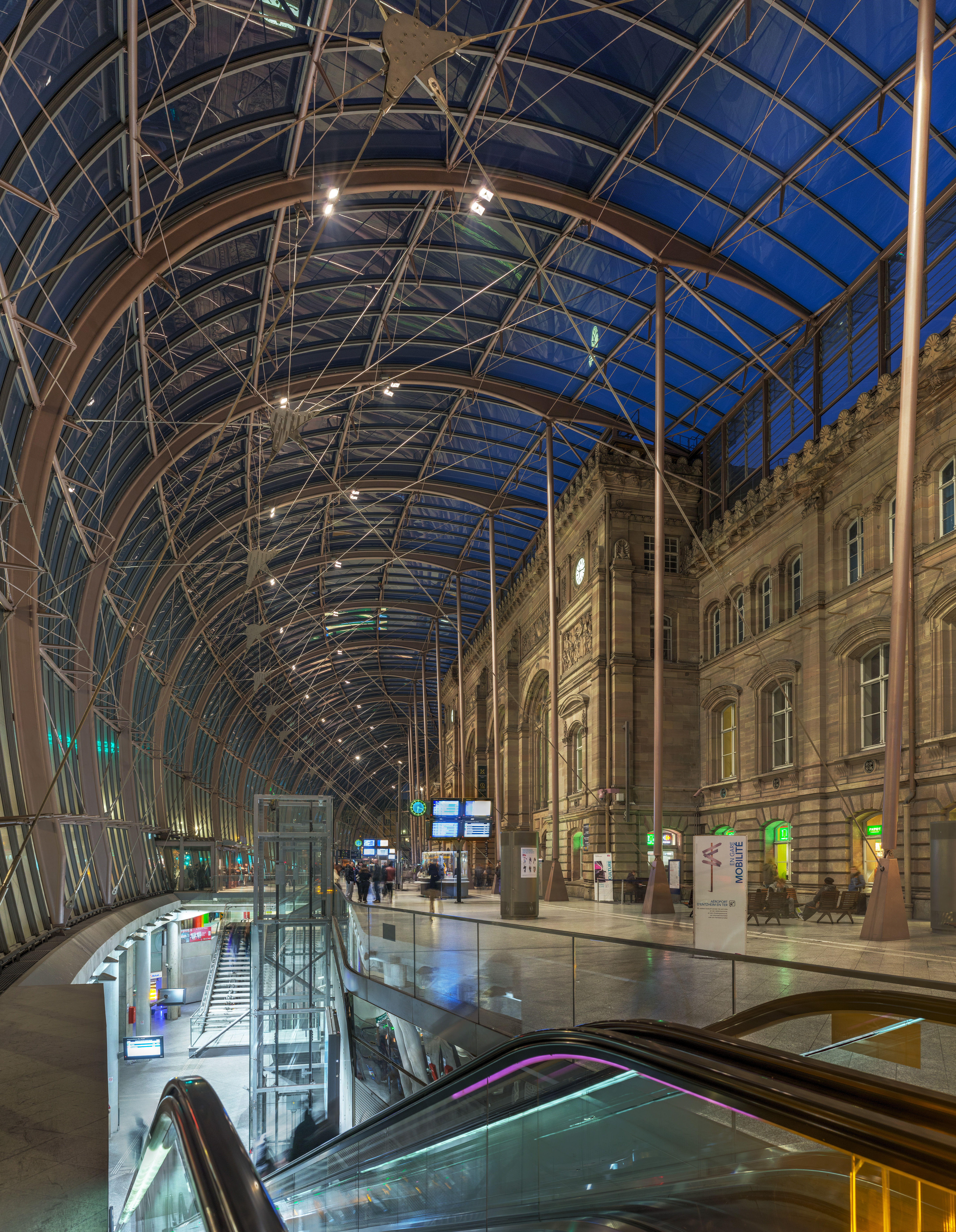 The interior of Gare de Strasbourg in the evening, showing the historical façade and the modern glass roof creating an entrance hall. In the foreground is an escalator leading to the lower ground level.